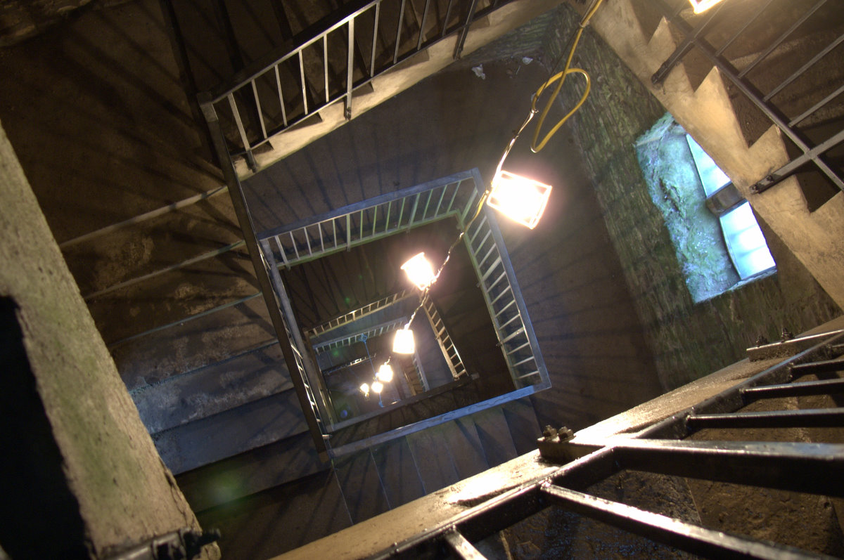 An image taken from near the top of the Peel Monument, through its centre. It shows a lighting column and several flights of stairs. It was taken using a Panasonic DMC-FZ30 camera on 26/12/2007 by John G. Holland of Rawtenstall, Lancashire, Glabrata (talk) 23:47, 26 December 2007 (UTC). It should appear in the Peel Monument article.